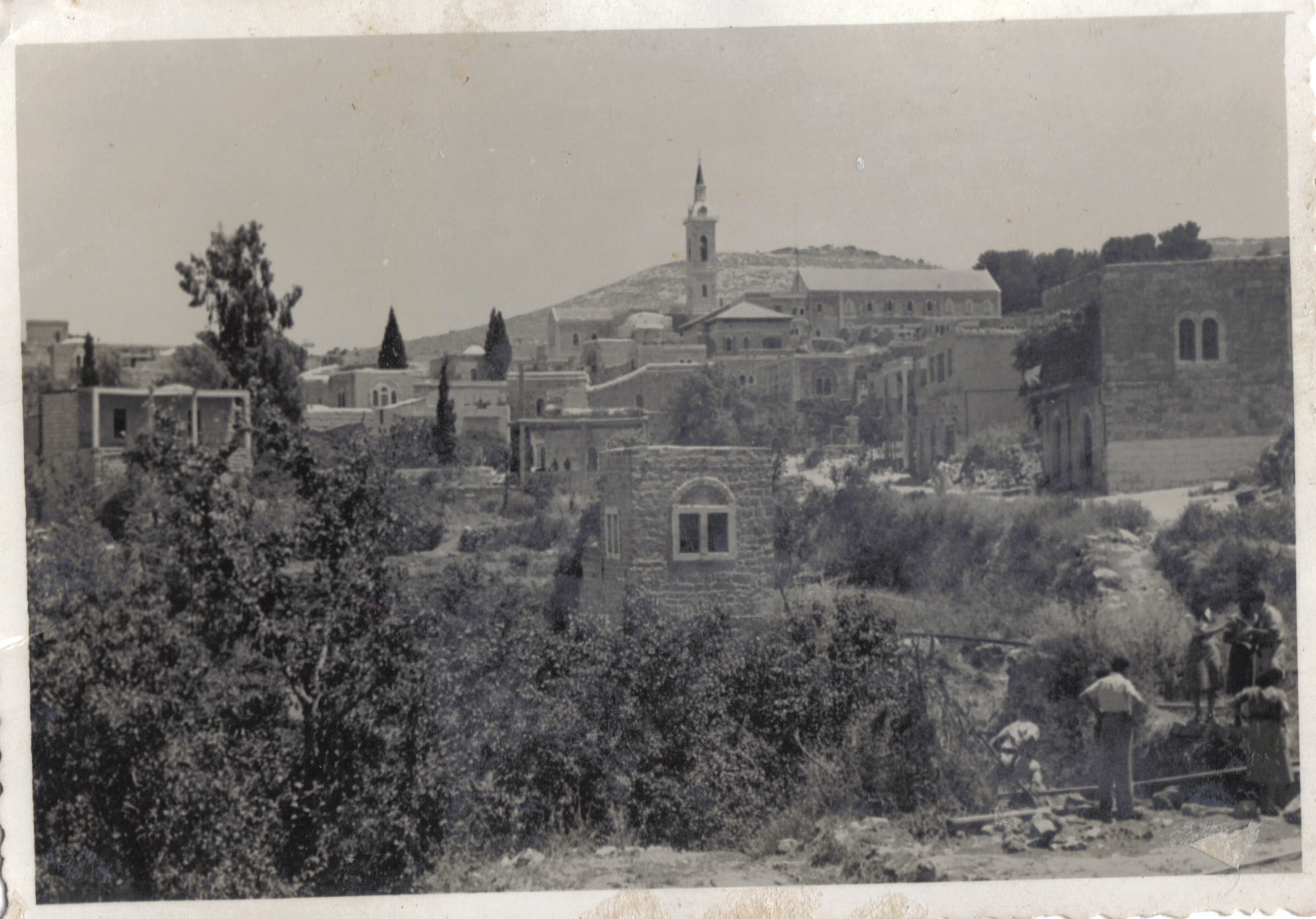 A view of Ein Karem, in the western part of Jerusalem, in May 1949.